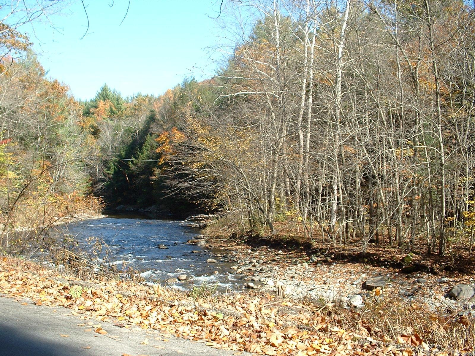 The Green River flowing through Colrain, Massachusetts Green River Rd, Colrain, MA.